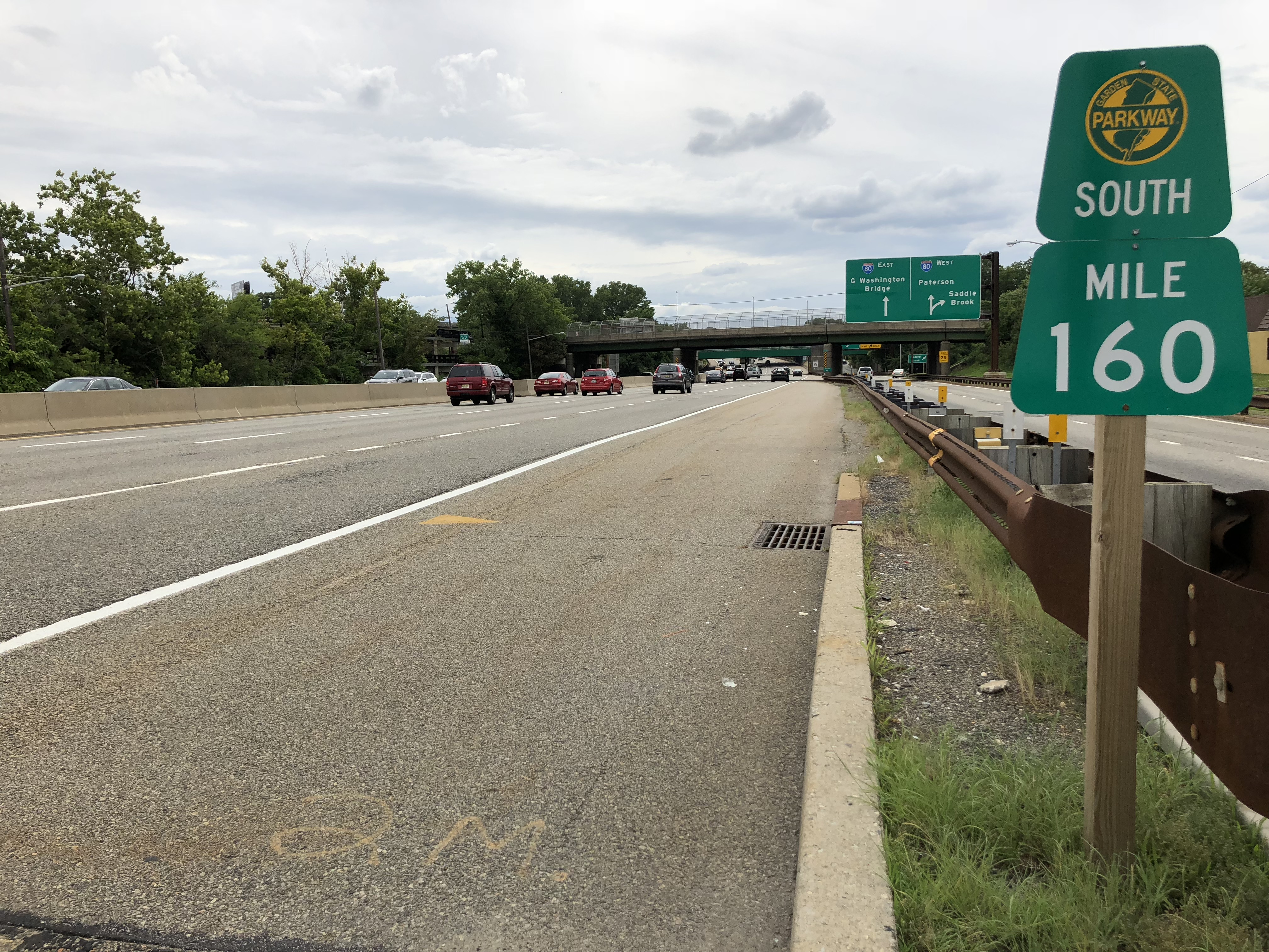 View south along New Jersey State Route 444 (Garden State Parkway) just south of Exit 159 (Interstate 80, Saddle Brook, Paterson) in Saddle Brook Township, Bergen County, New Jersey